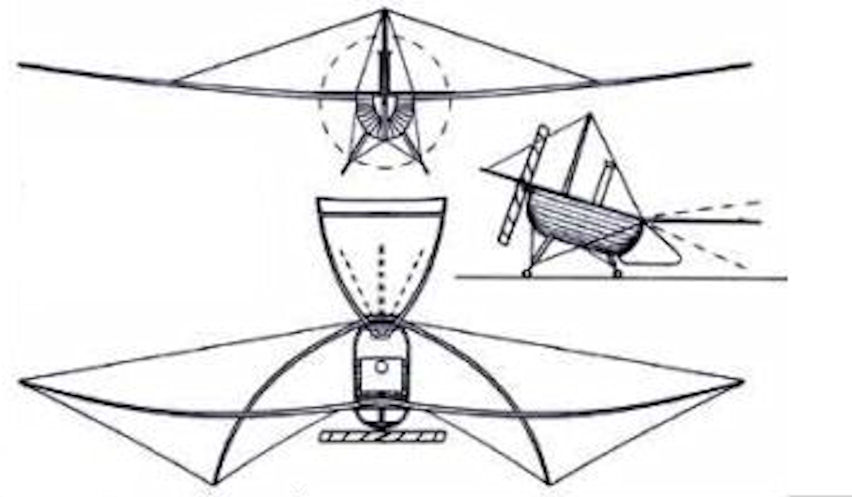 Felix Du Temple patent drawing 1874.